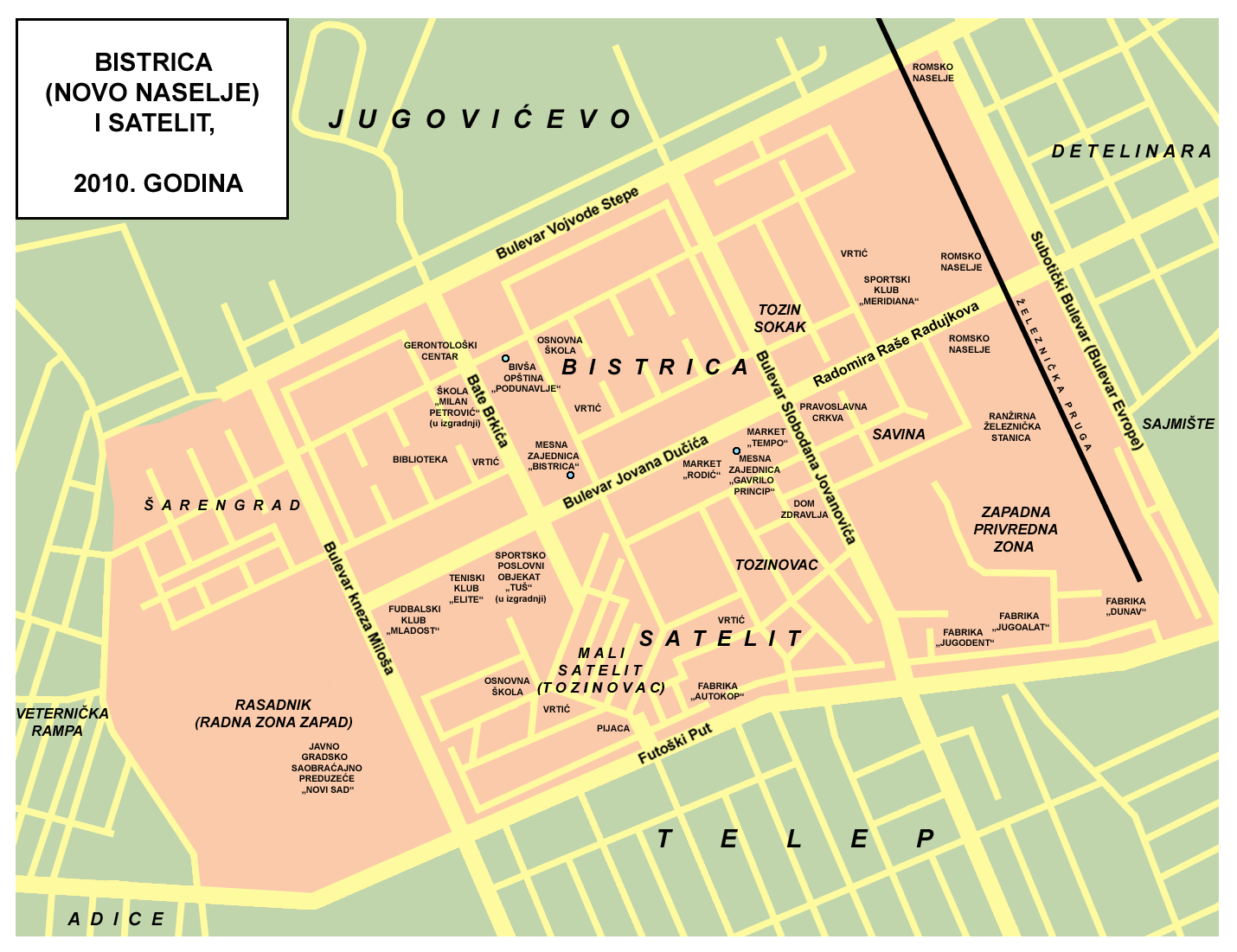 Map of Bistrica (Novo Naselje) and Satelit neighborhoods of Novi Sad (as of 2010) - in Serbian language.